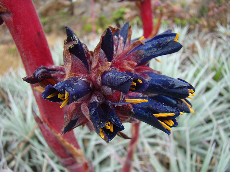 Puya venusta — small shrub from the Chilean coast, one of the species known as Chaqualillos. In context at